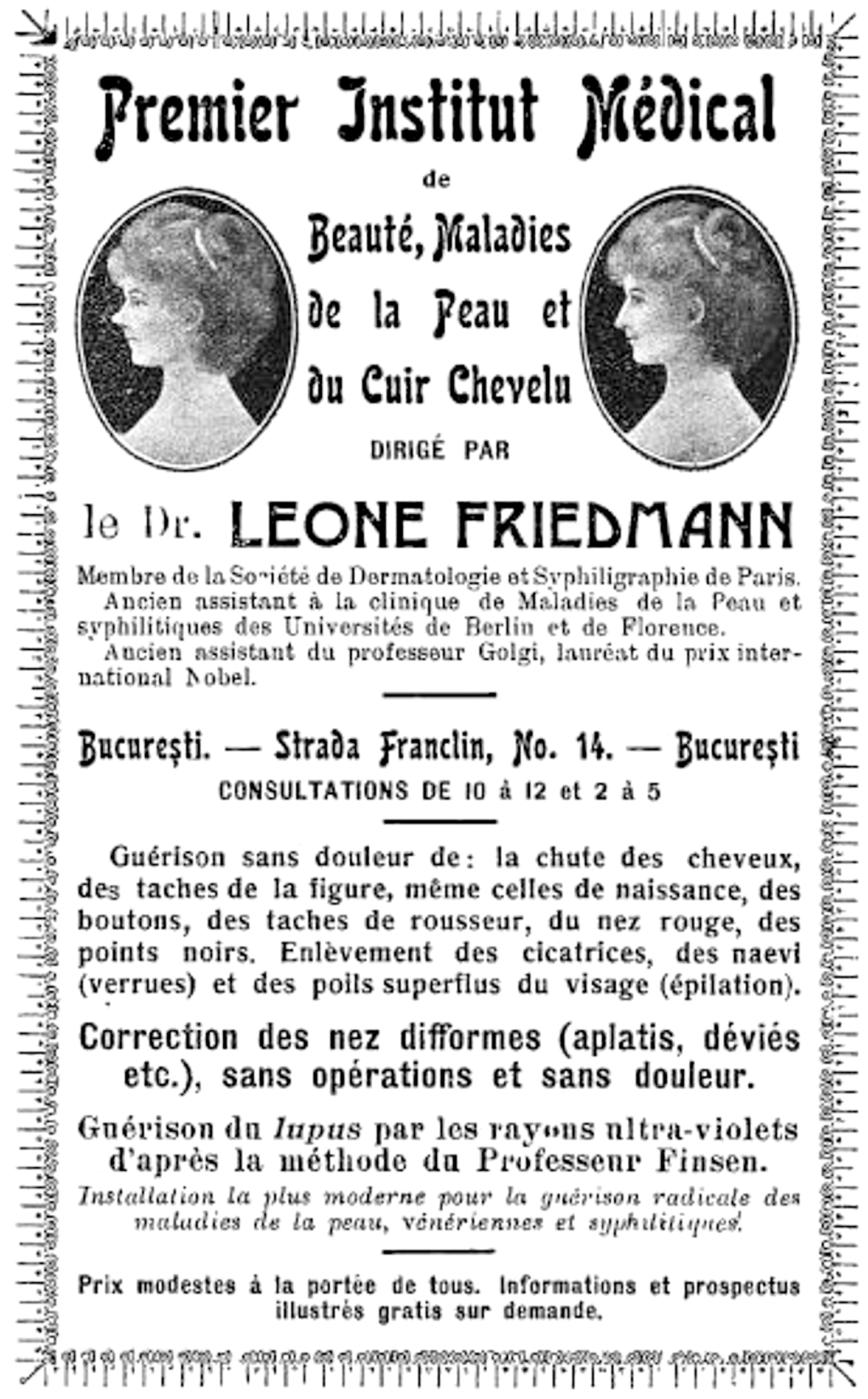 French-language advertisement for the beauty and health institute at No. 14 Franklin Street, Bucharest, Romania. The founder and owner is Leone Friedman, "Member of the Dermatological and Syphiligraphic Society, Paris. Former attending physician in the Skin Disease and Syphilis Clinic at the Universities of Berlin and Florence. Former assistant to Professor [Camillo] Golgi, a laureate of the international Nobel Prize." Friedman promised: the "pain-free treatment" of acne, alopecia, birthmarks, blackheads, port-wine stains and rosacea; the removal of scars or moles; depilation; the non-surgical "correction of deformed noses"; the X-ray treatment of lupus, "from the method devised by Professor [Niels Ryberg] Finsen"; and "the most modern installation for for the radical cure of skin, venereal and syphilitic diseases."